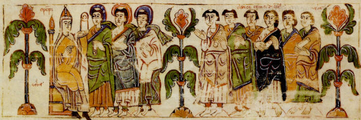 View of people of Toledo in AD 976, from the Codex Vigilanus.